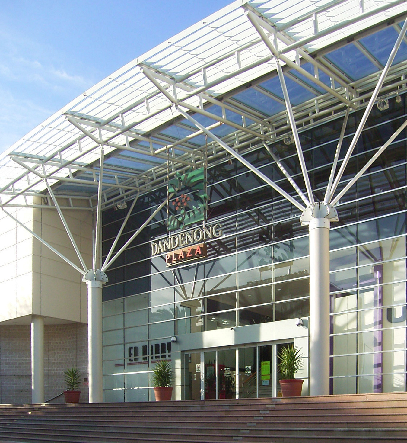 Exterior main entrance of Dandenong plaza.